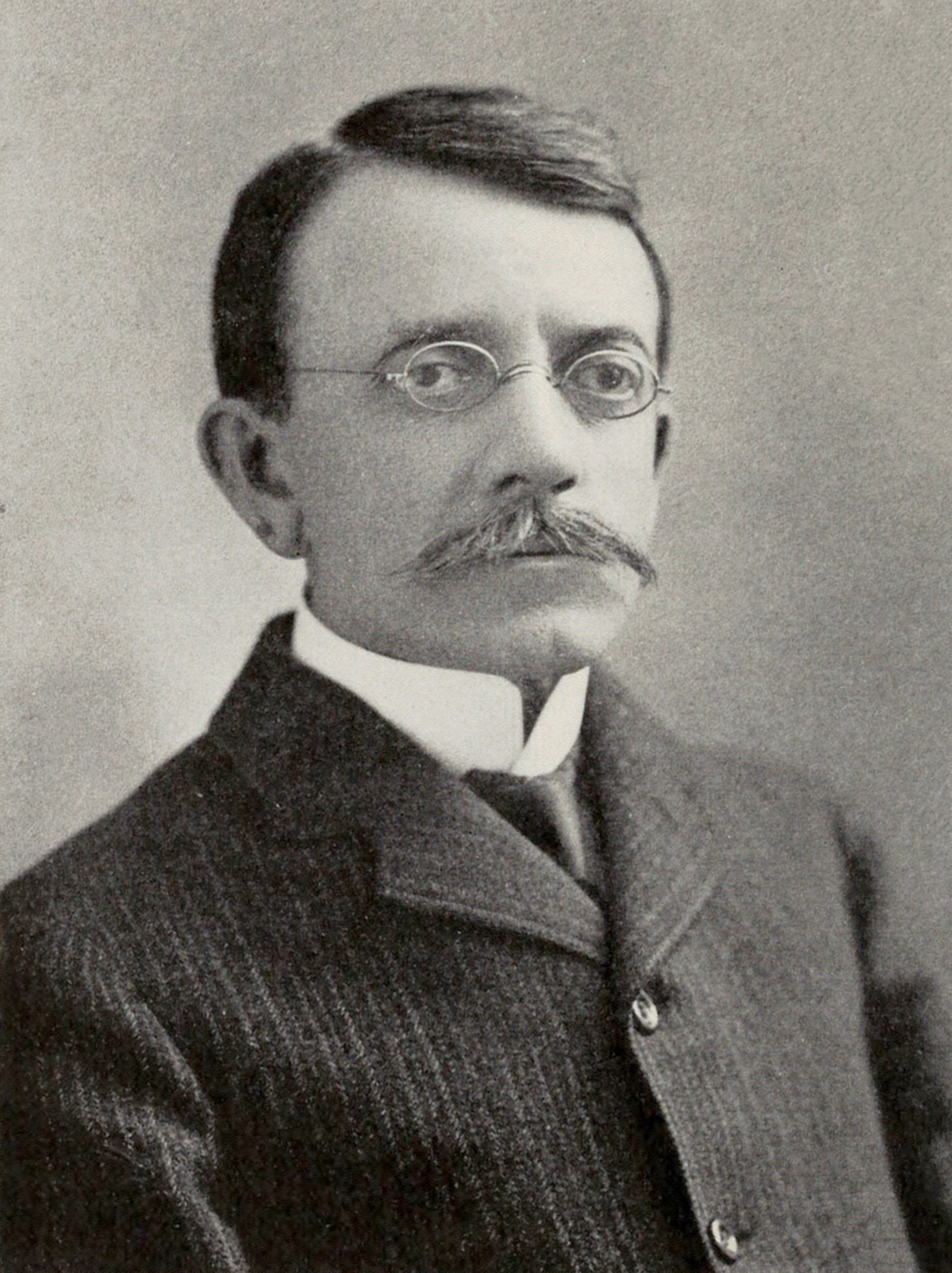 Charles Kinney of Ohio in about 1903.